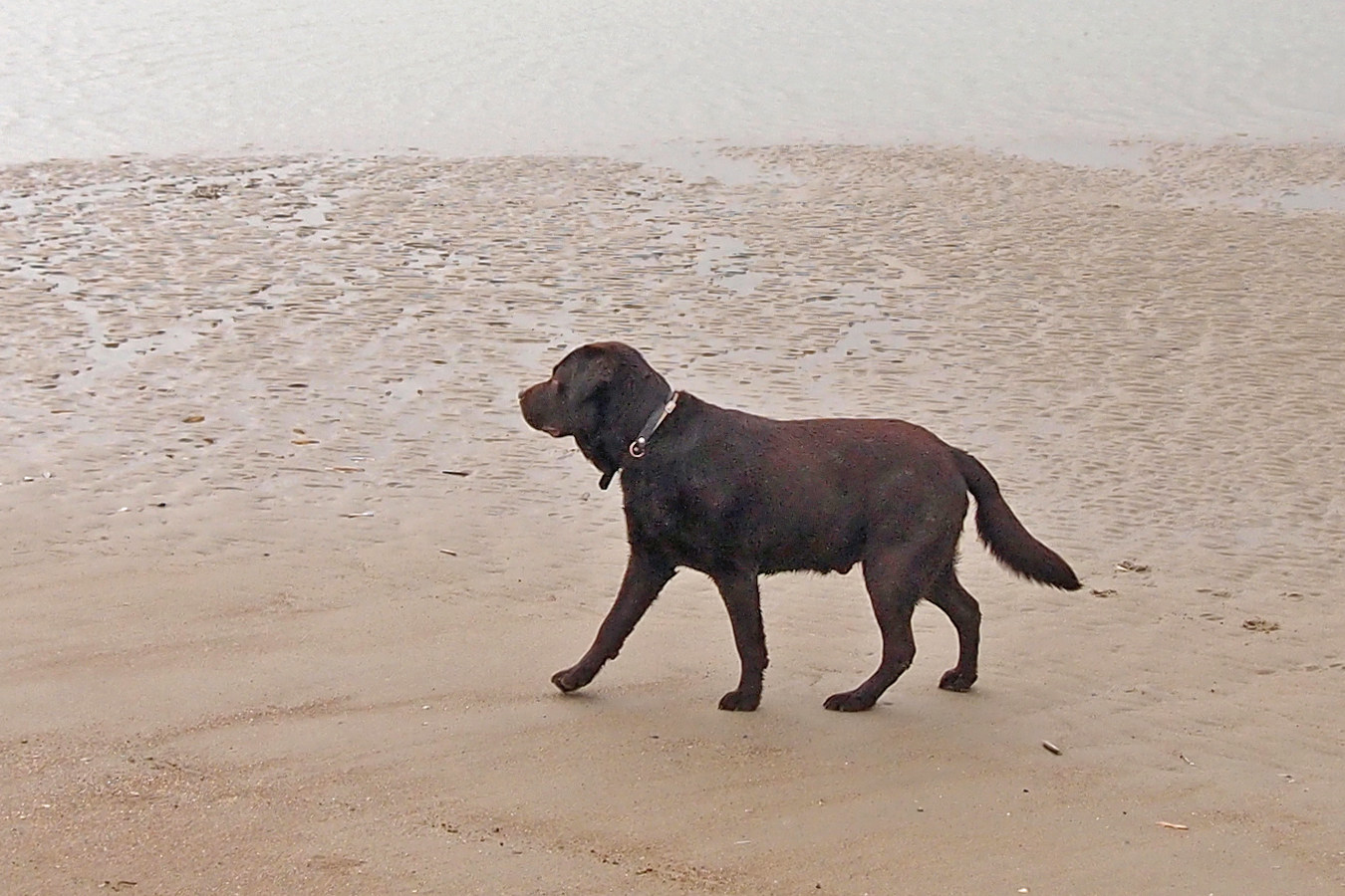 A chocolate Labrador Retriever coat colour genetics chocolate walking on the beach. Name: Sam Age: 5 years (human years)